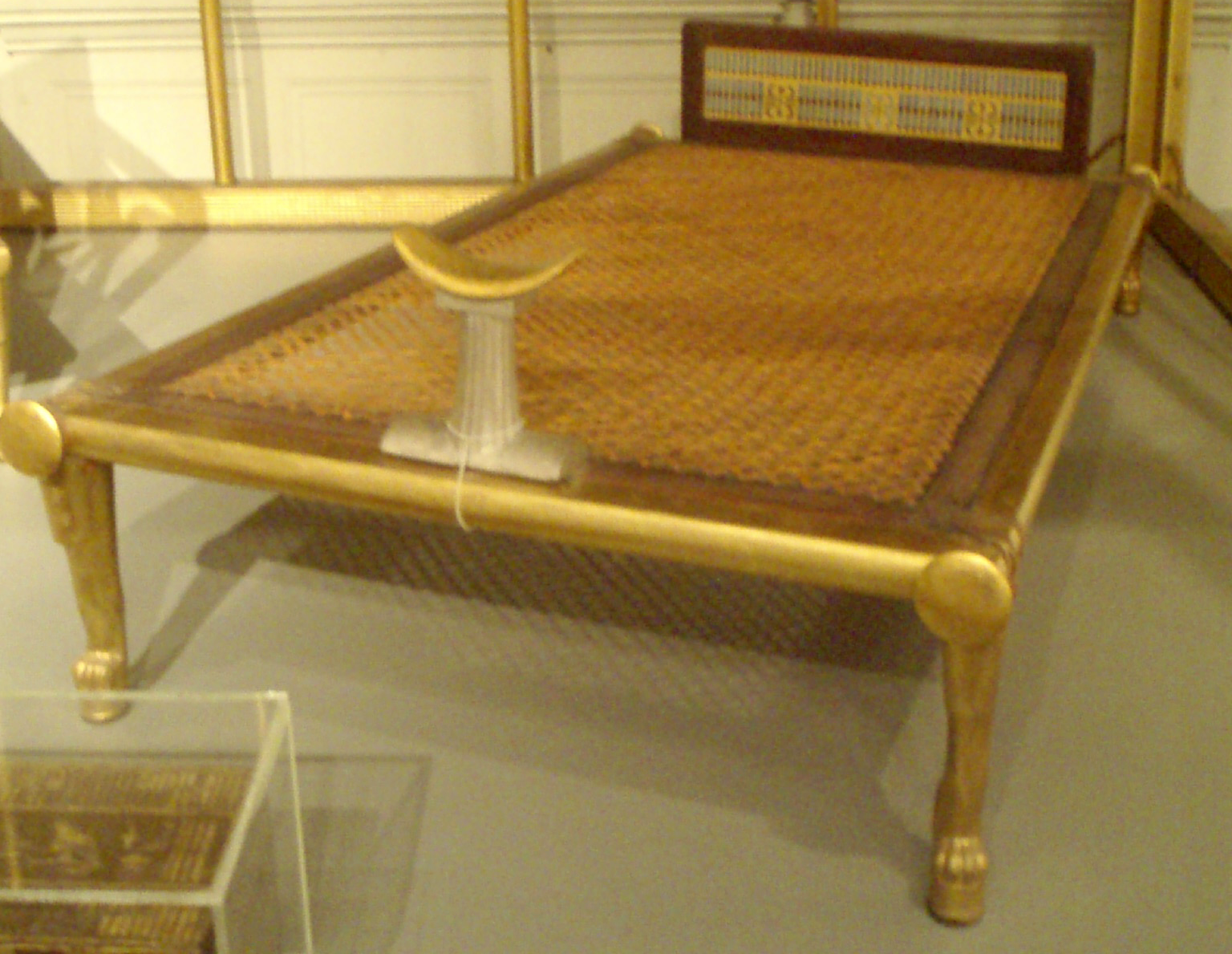 Wooden bed with headrest from the funerary furniture of Queen Hetepheres, from the 4th dynasty, circa 2575-2528 B.C. Bed length is 177 cm (5ft 9in). Reconstruction of original on display in Cairo, this copy residing in the Museum of Fine Arts, Boston.